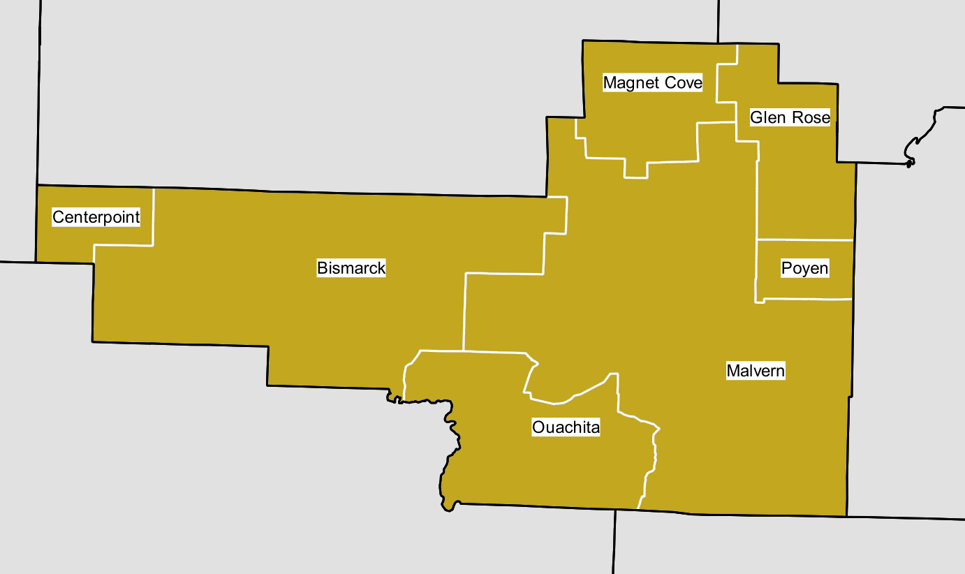 Map of all public school districts in Hot Spring County, AR (mustard) This graphic was created with QGIS Counties Data source: Arkansas GIS Office. Data Provided by Arkansas State Highway and Transportation Department, In Cooperation With The U.S. Department of Transportation Updated 2014-10-16 Public School District Boundary (polygon) (only shown within county of interest): Data source: Arkansas Secretary of State and the Arkansas Geographic Information Systems Office Updated: 2016-07-22